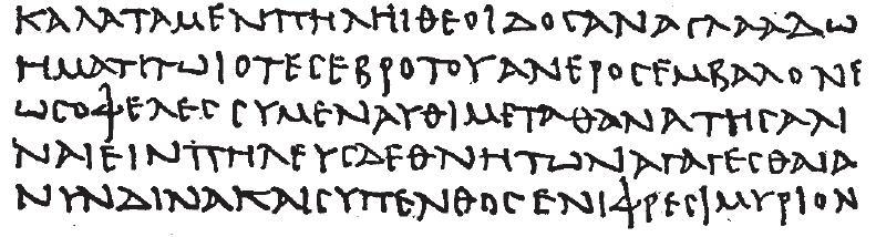 old greek papyrus